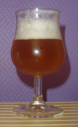 Westmalle tripel (9,5%) trappist beer (Belgium).